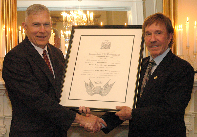 Commandant of the Marine Corps General James T. Conway presents Chuck Norris with a citation on March 28, 2007. naming Norris an honorary U.S. Marine.